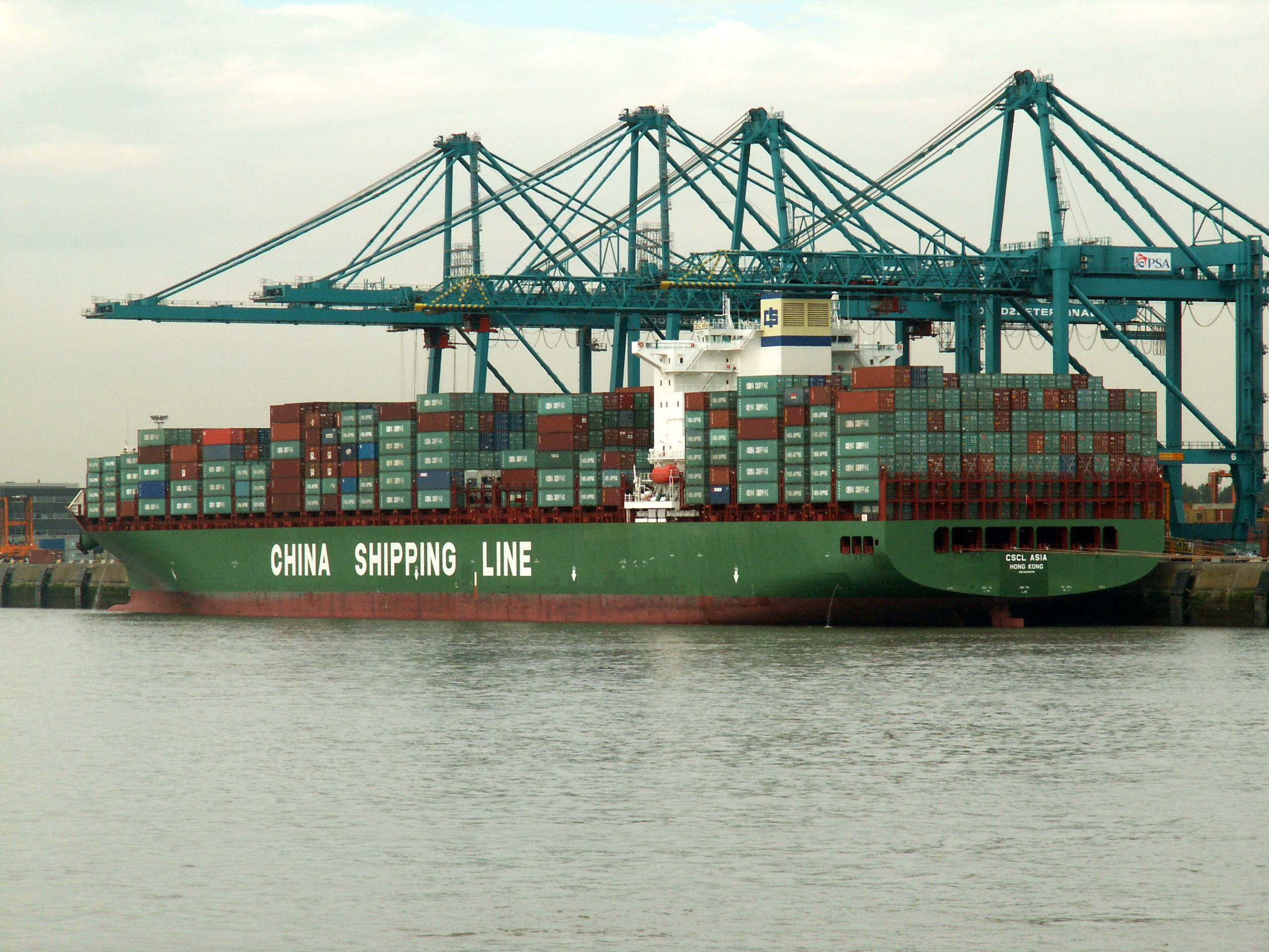 CSCL Asia IMO 9285976 , at Port of Antwerp, Belgium 09-Sep-2005.